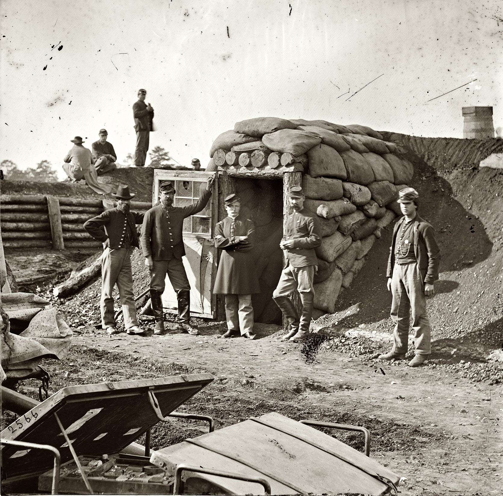 "Fort Burnham, Virginia, the former Confederate Fort Harrison. Federal soldiers in front of bomb-proof headquarters." Wet plate glass negative, half of stereo pair.